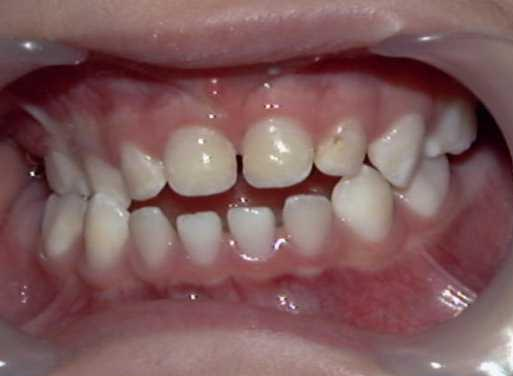 teeth photo